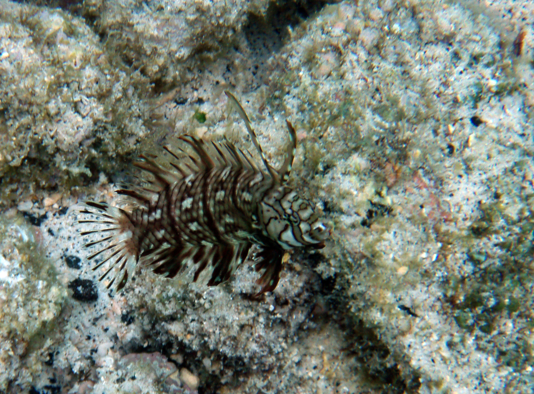 Juvenile rockmover, Novaculichthys taeniourus in Kona